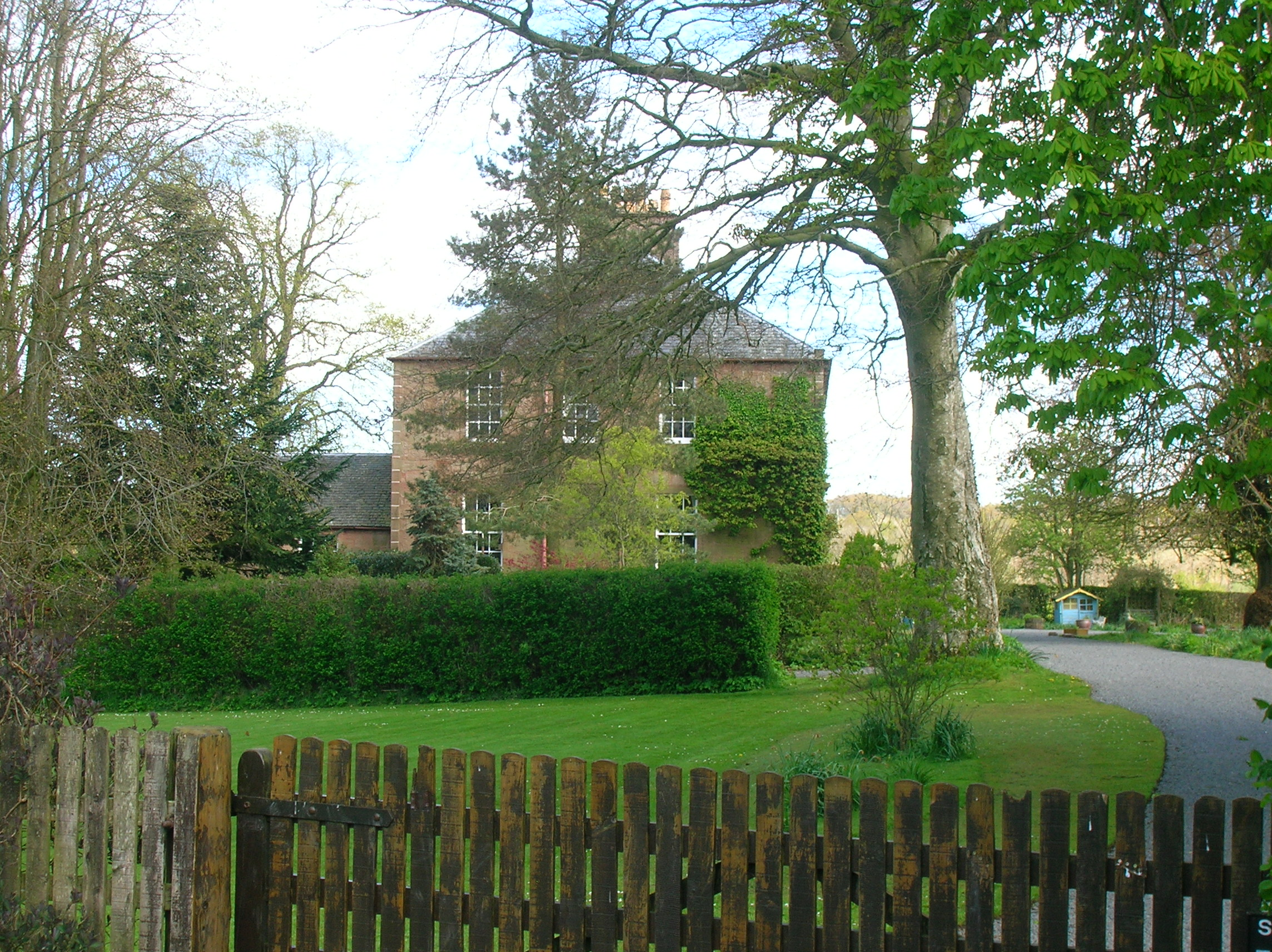 the old manse at Coylton, South Ayrshire, Scotland